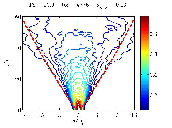 The determination of the entrainment coefficient using FDS by applying the threshold method